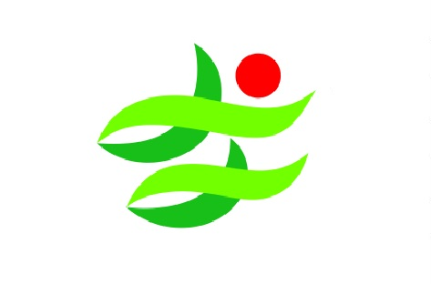 Flag of Nantan Kyoto